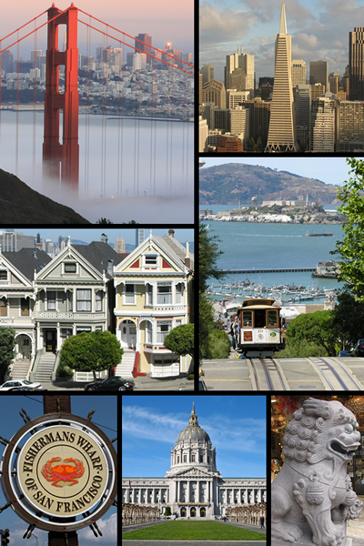 Golden Gate Bridge and San Francisco at sunset